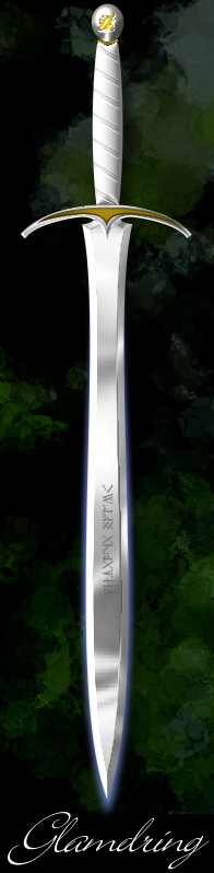 Glamdring - Sword of Gandalf, based on a description Tolkien's The Lord of the Rings. Made in Photo Impact 8, using the path tool. TTF-Font "Anglo Saxon Runes" by Dan Smith.